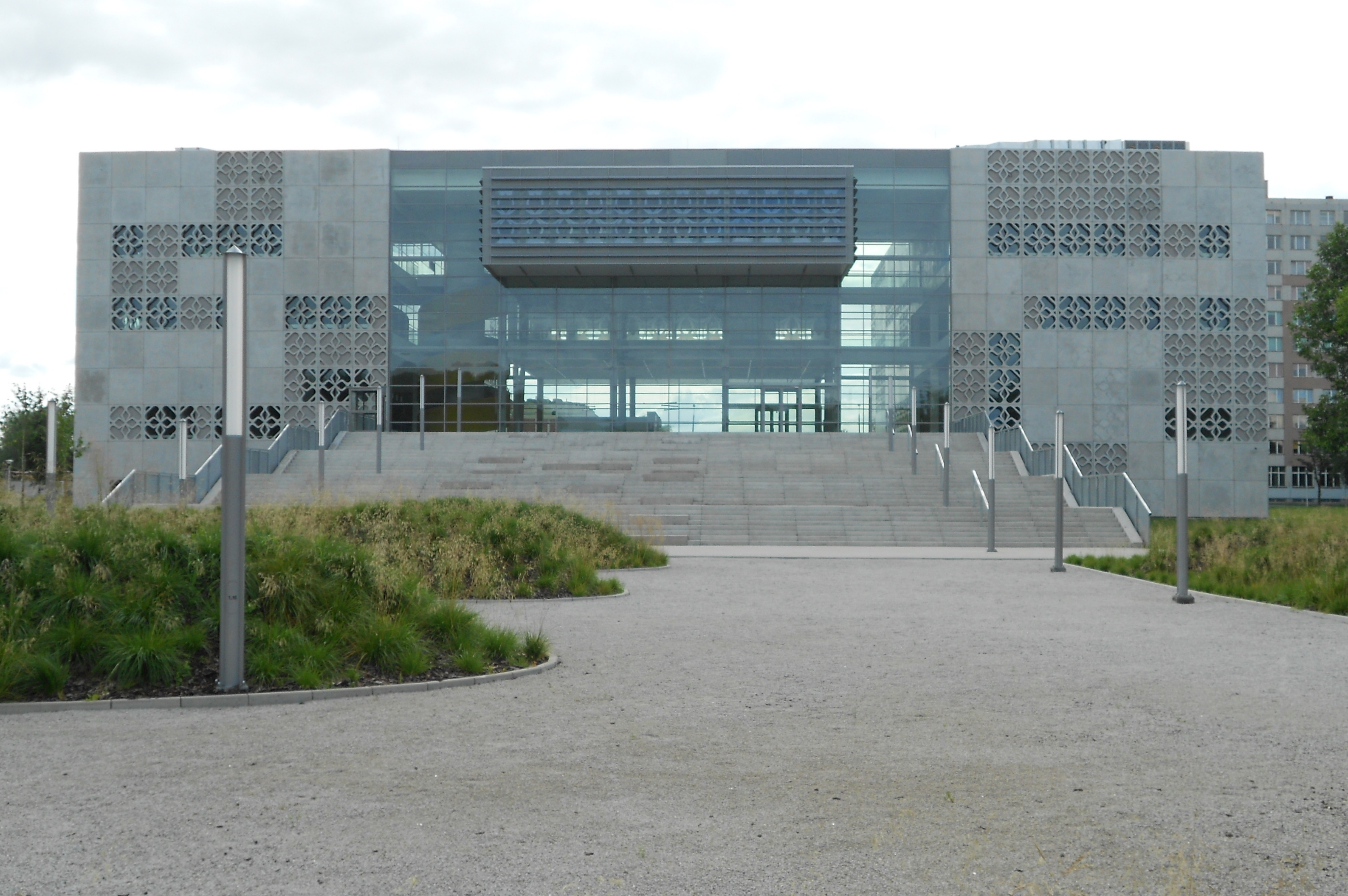 Center of Modern Education of Białystok Technical University